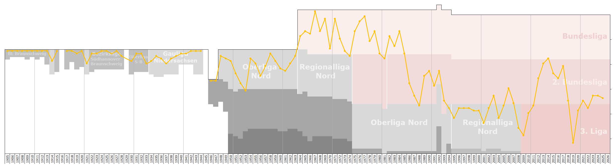 Chart of end-season table positions of Eintracht Braunschweig in the football league system of Germany. Data source: RSSSF, wikipedia, f-archiv.de, fussball.de